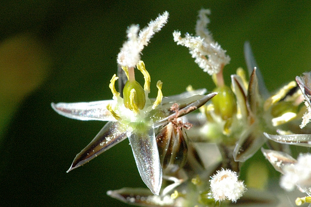 Juncus squarrosus from Commanster, Belgian High Ardennes .